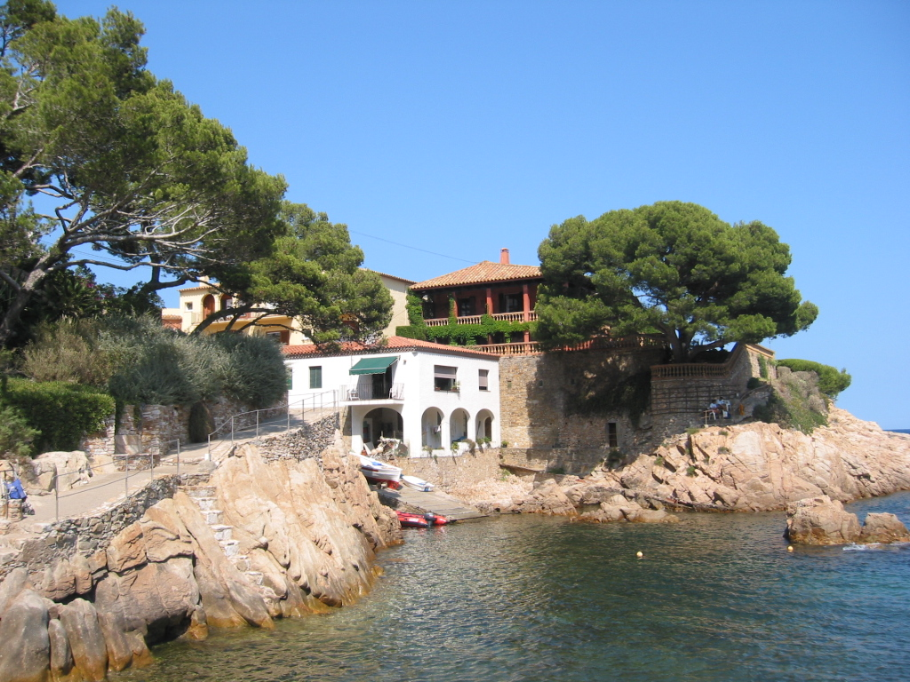 Shoreline view of Fornells, Catalonia